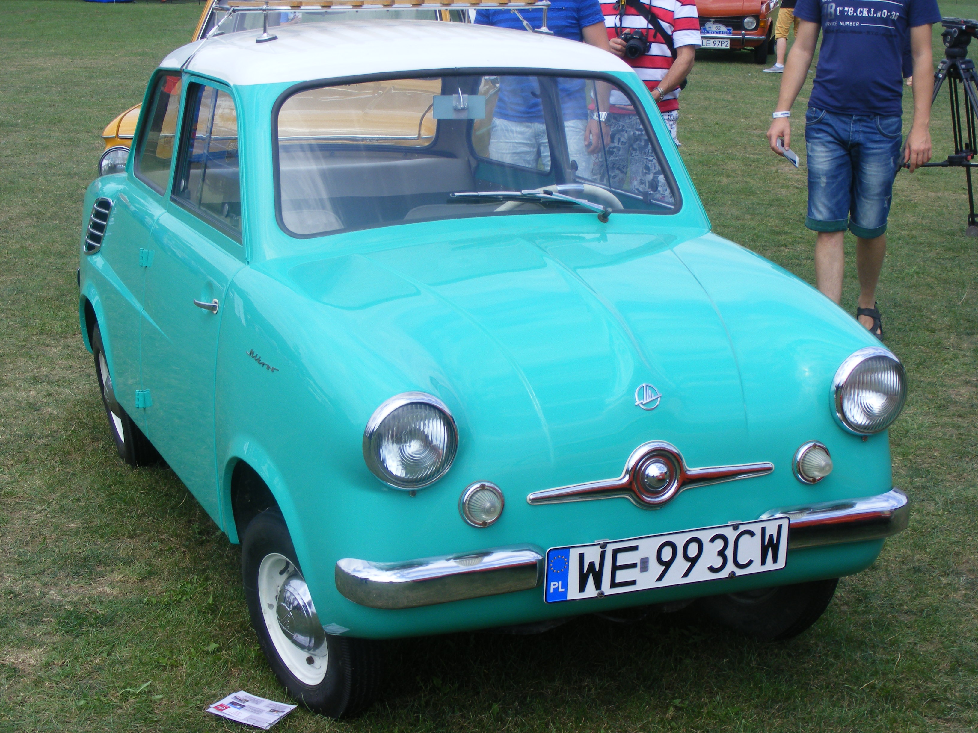 Mikrus MR-300 in Wrocław 2016